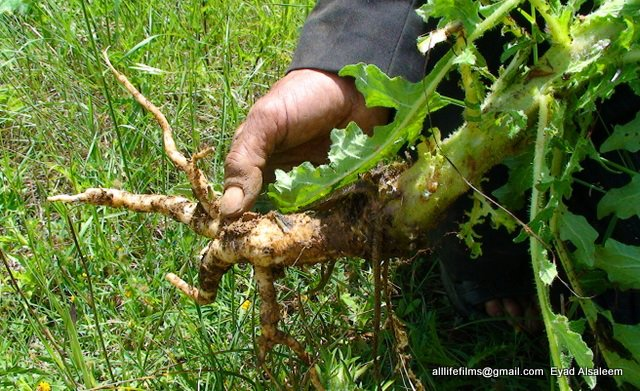 نبات برّي سوري يؤكل